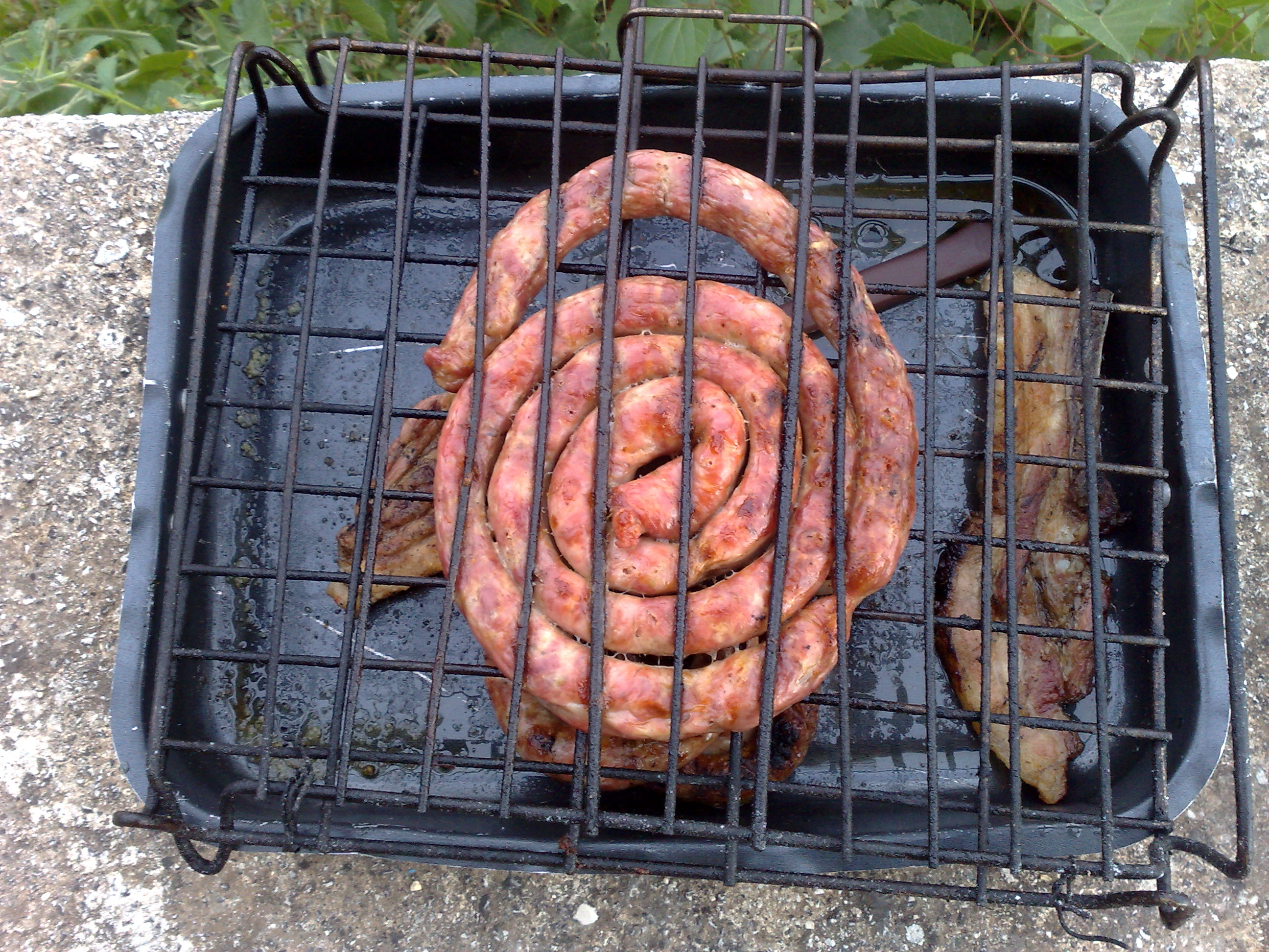 Bisaquino (Palermo): sicilian "sasizza" (grilled sausages)